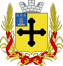 Coat of Arms of Spassk, 1861